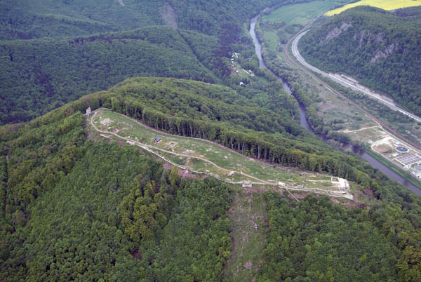 Pustý hrad, Slovakia, castle, aerial photography